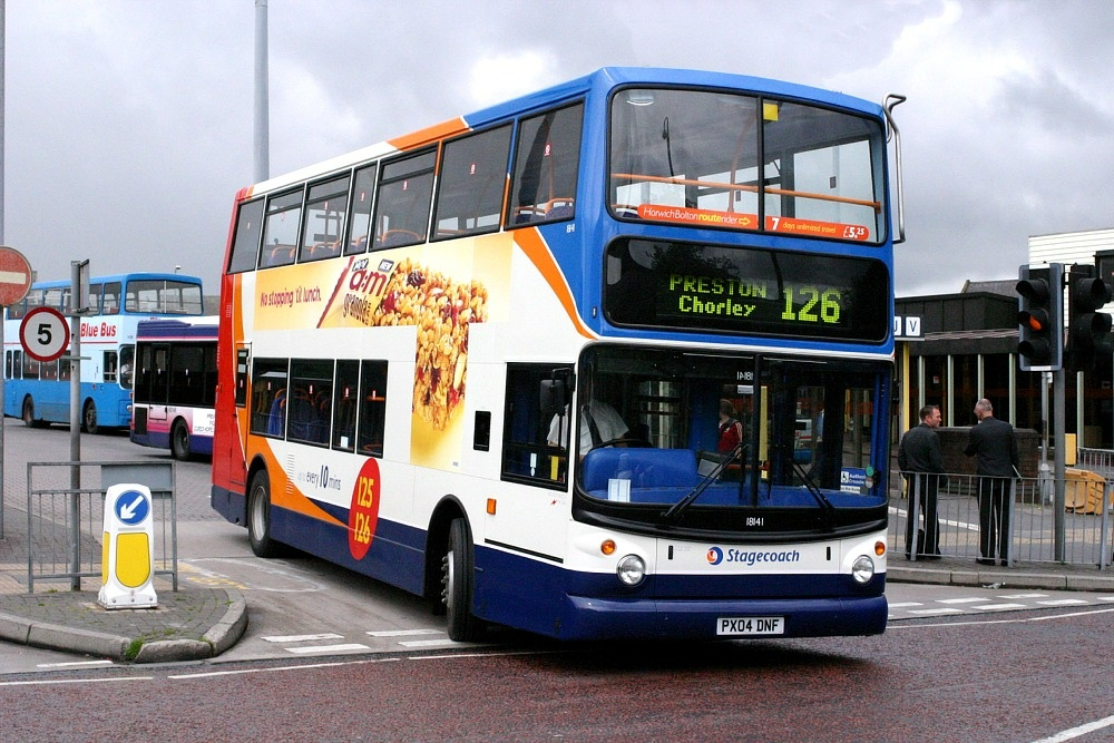 A Stagecoach in Lancashire Dennis Trident 2 bus departing from Bolton bus station.